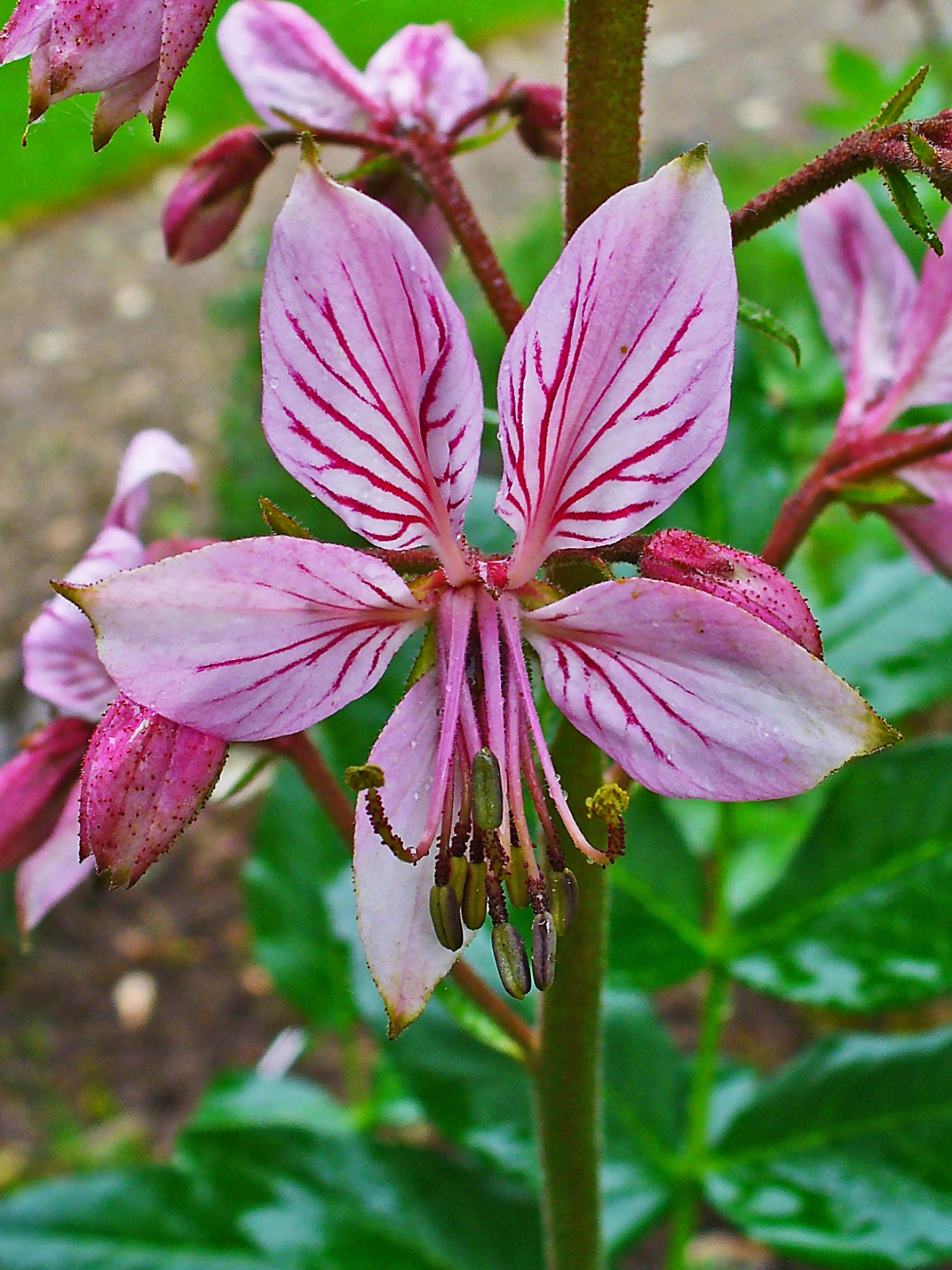 Dictamnus albus, Rutaceae, Burning Bush, False Dittany, White Dittany, and Gas-plant, flower; Botanical Garden KIT, Karlsruhe, Germany. The leaves and the root are used in homeopathy as remedy: Dictamnus albus (Dict.)